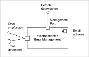 Component diagram